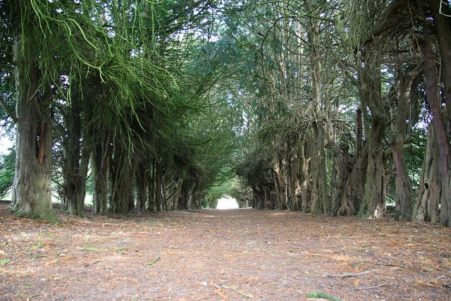 Yew tunnel Tunnel of mature yews at Easton Walled Gardens